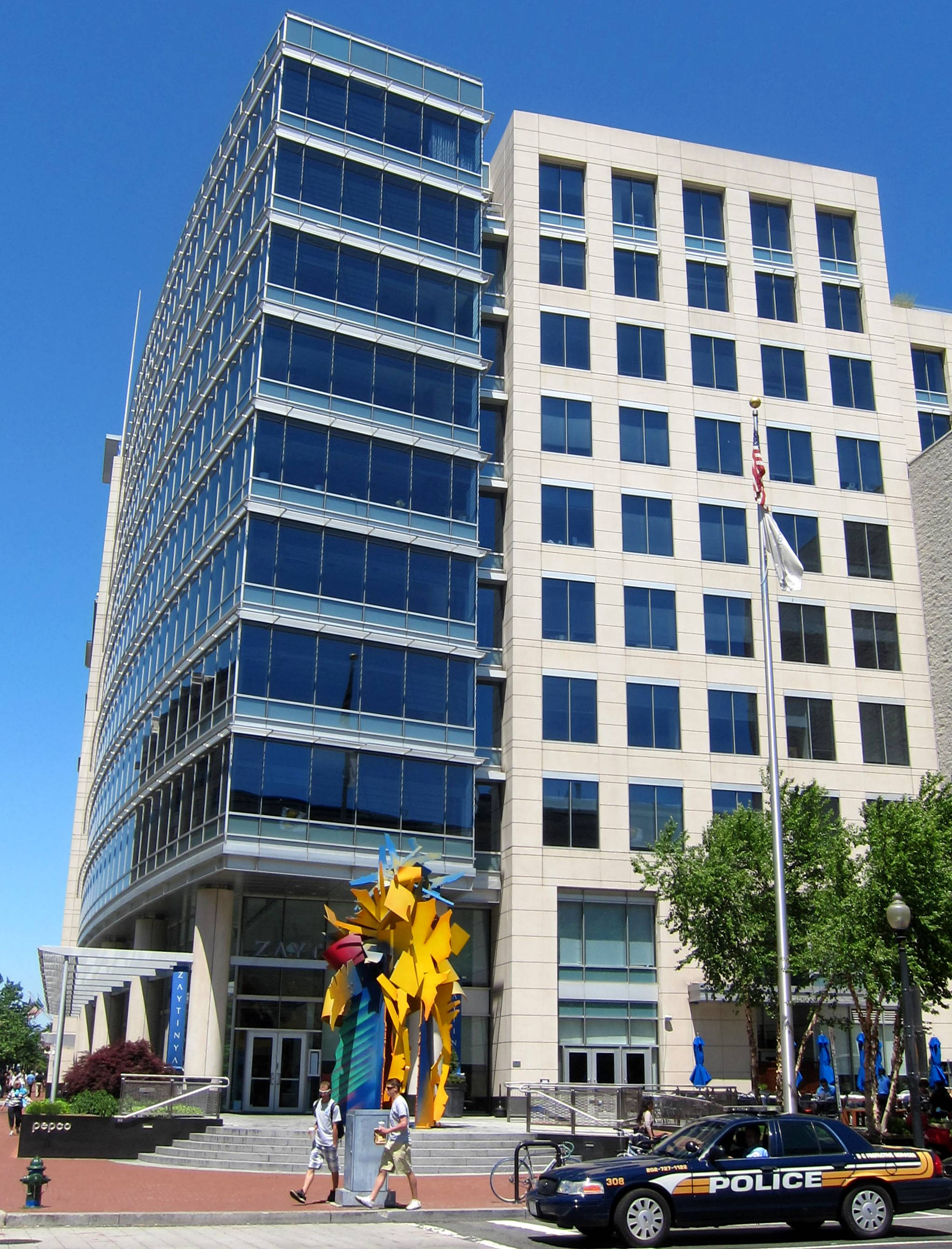 Headquarters of the Potomac Electric Power Company (PEPCO) located at 701 9th Street, N.W., in the Chinatown neighborhood of Washington, D.C. The 11-story, postmodern high-rise (commonly known as Edison Place or the PEPCO Building) was built in 2001 to the designs of architectural firm Devereaux & Purnel.